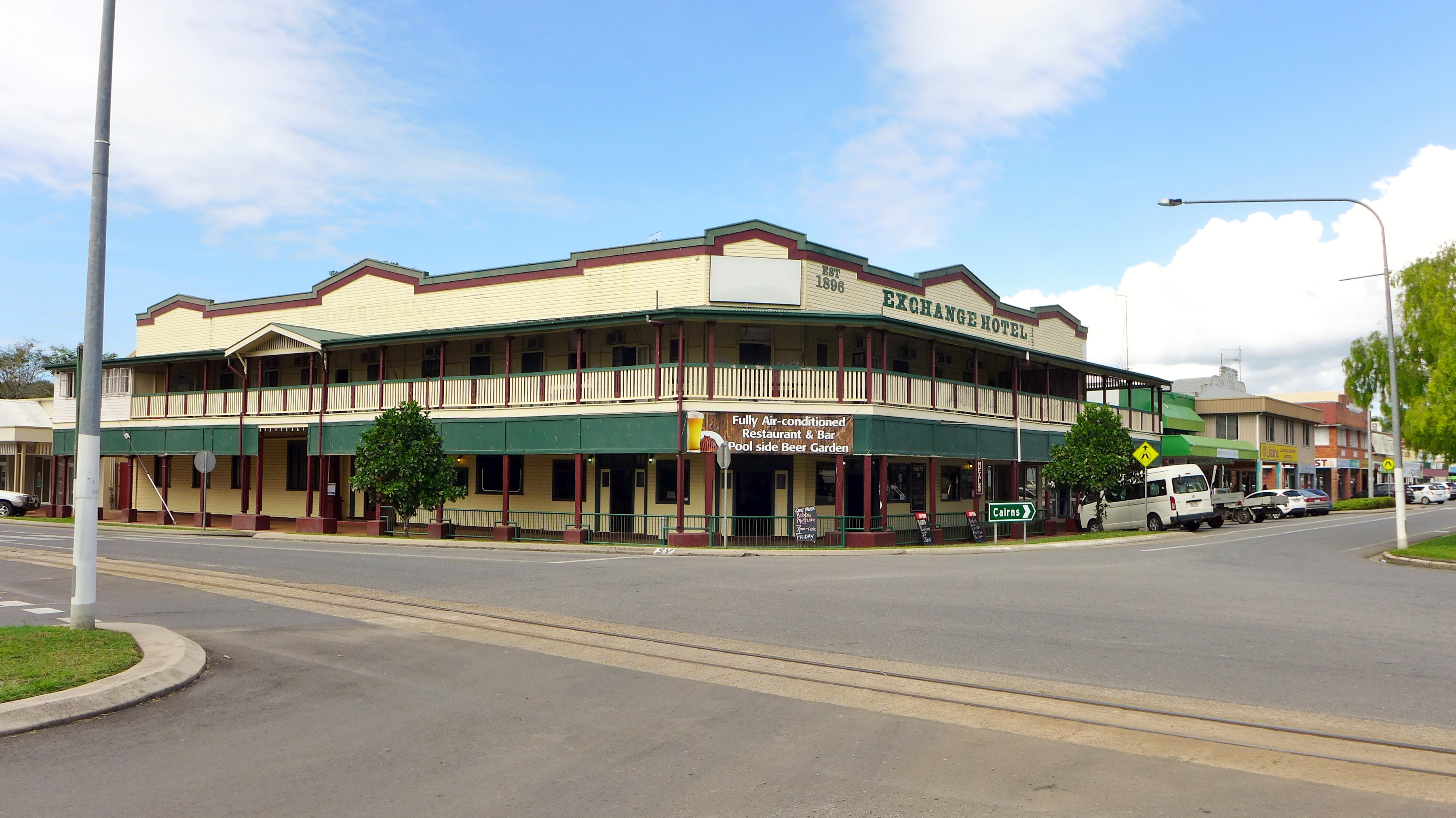 The Exchange Hotel, 2 Front Street, Mossman, Far North Queensland, Australia.